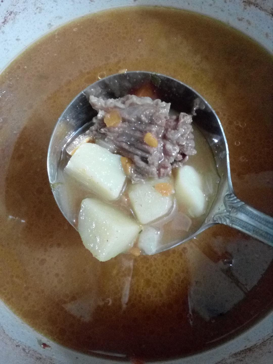 Македонска јанија